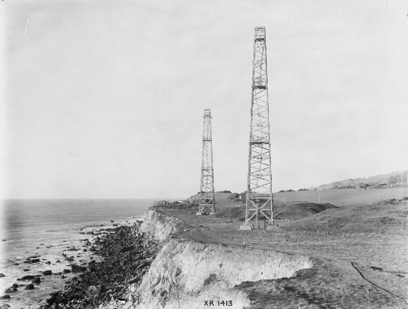 Royal Air Force Radar, 1939-1945 Chain Home: radar receiver towers and bunkers at Woody Bay near St Lawrence, Isle of Wight, England. This installation was a 'Remote Reserve' station to Ventnor CH.